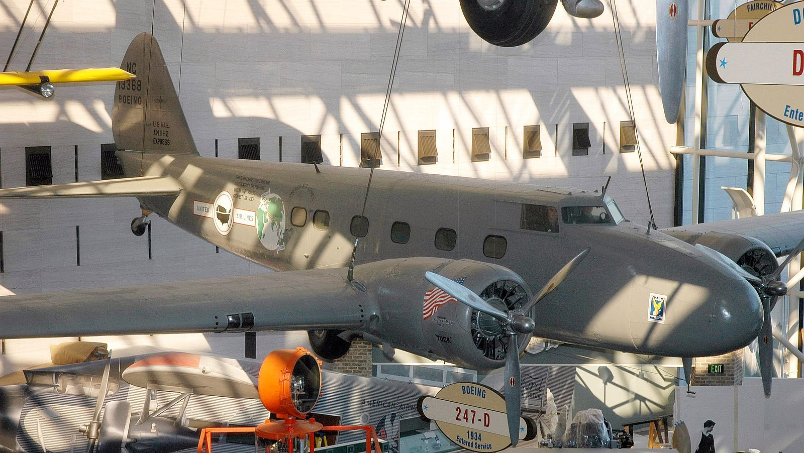 Delivered to United Air Lines in September 1934, this aircraft was flown by Roscoe Turner in the 1934 MacRobertson England to Australia Race, coming third.The aircraft is on display at the Smithsonian National Air and Space Museum on Washington Mall, Washington DC. It is shown in its original UAL markings on its right side, while the left side is shown in its race markings.